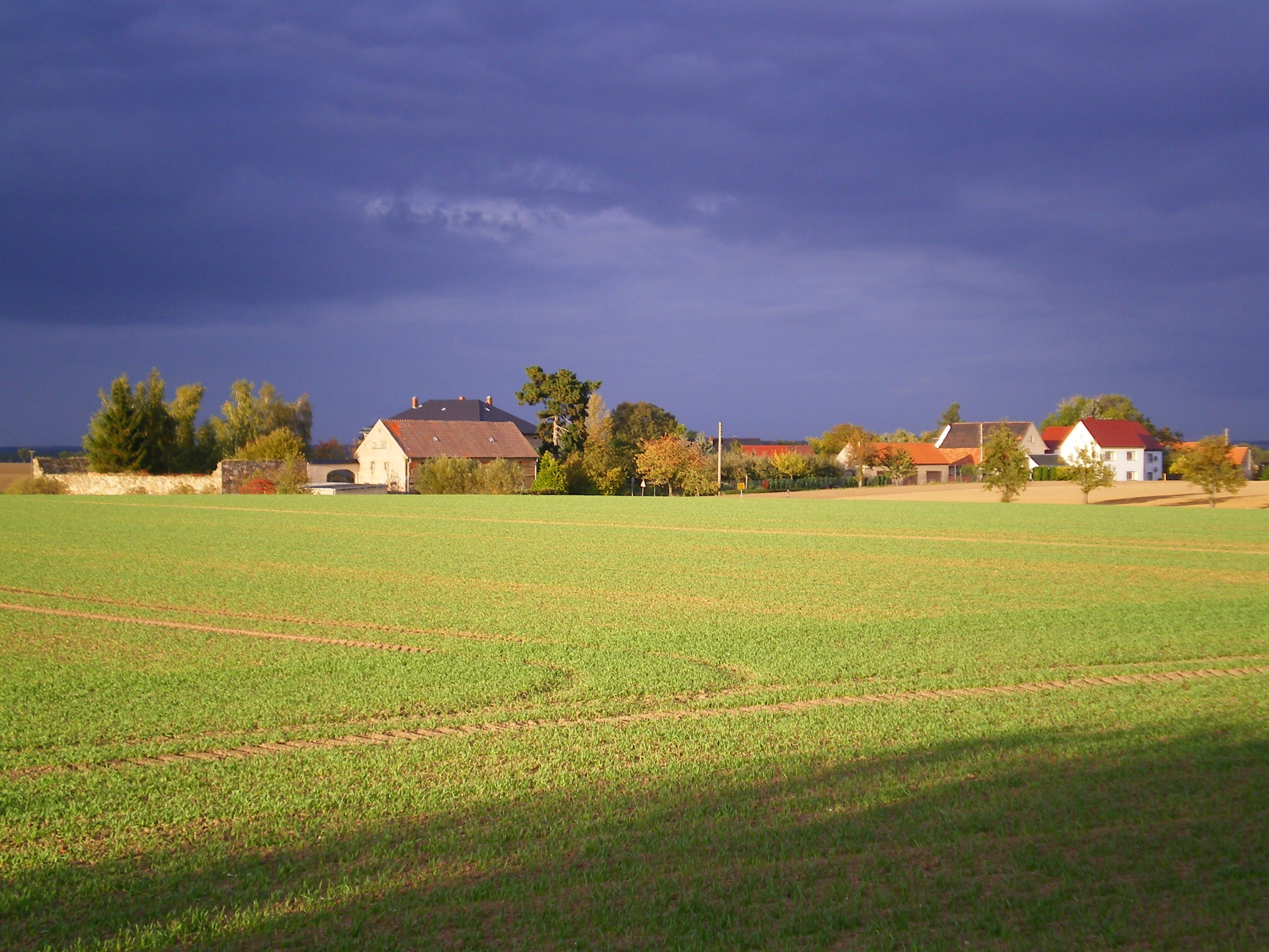 View on Heiersdorf (Ehrenhain) in municipality of Nobitz in district of Altenburger Land/Thuringia